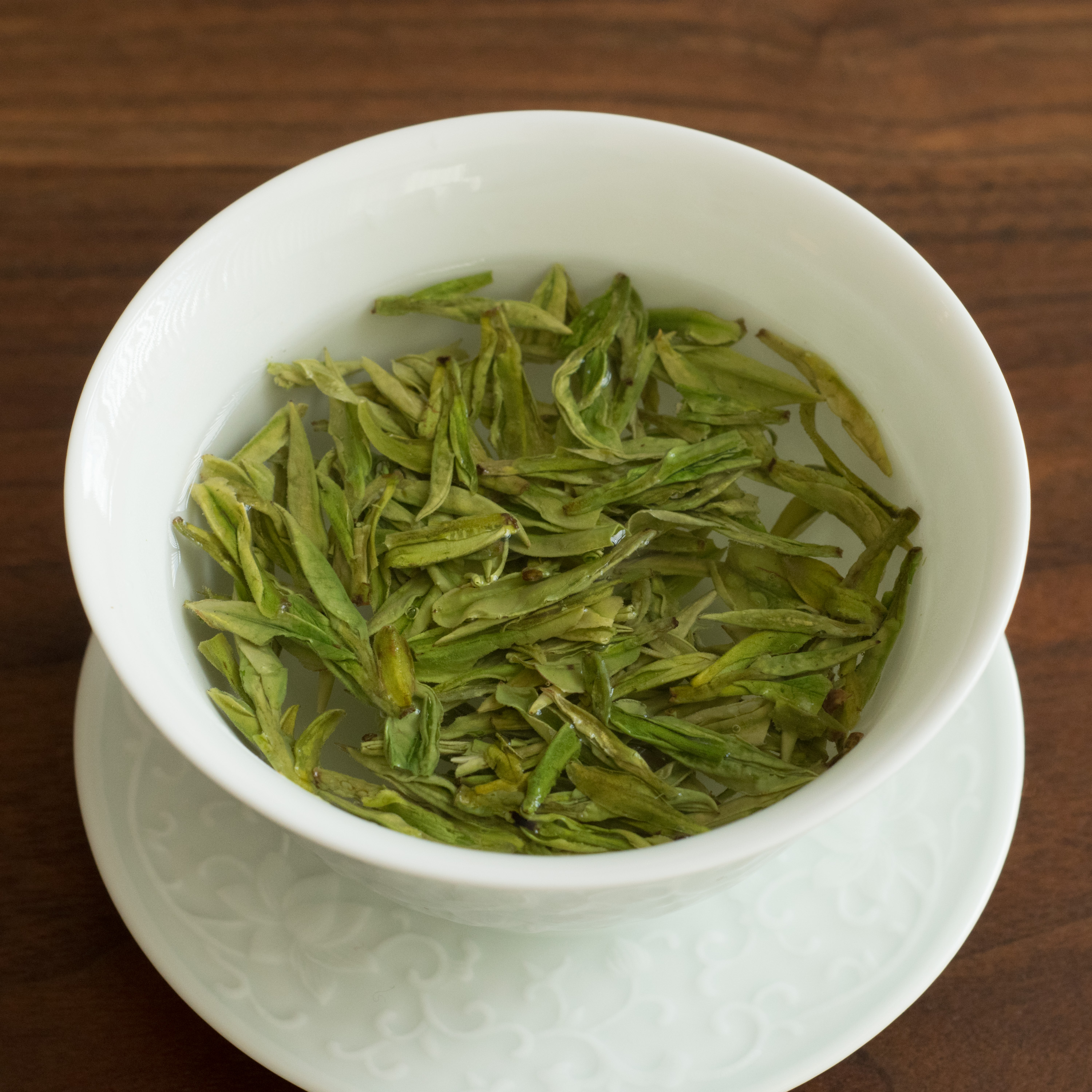 Pre-Qingming 2017 Longjing green tea, being steeped in a pale green gaiwan.